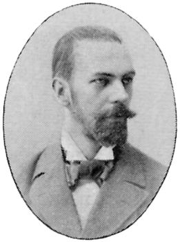 Image scanned from the book "Svenskt Porträttgalleri XX - Arkitekter, Bildhuggare, Målare m.fl. " ("Swedish Portrait Gallery XX - Architects, Sculptors, Painters, ") published 1901